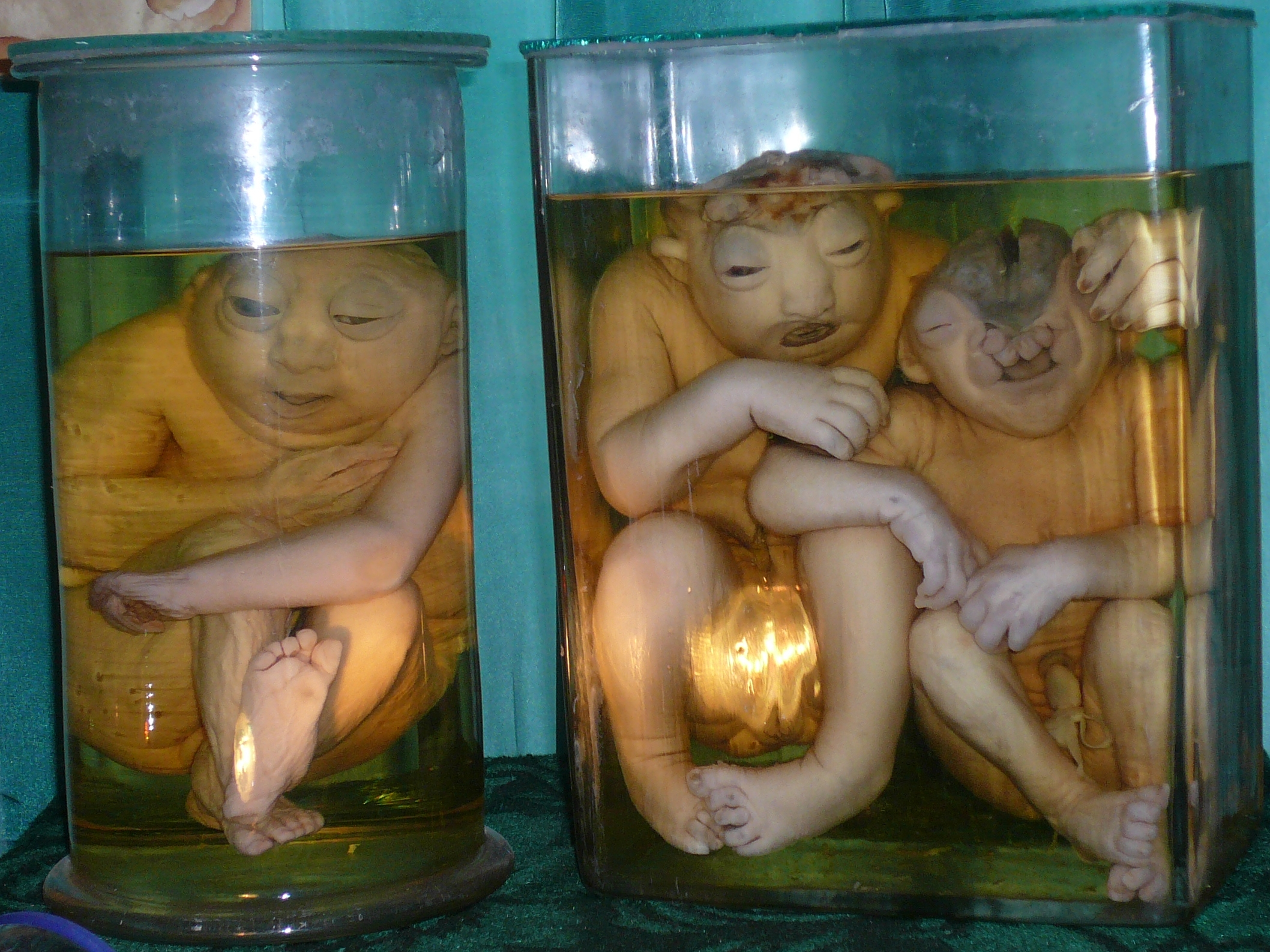 Anencephaly